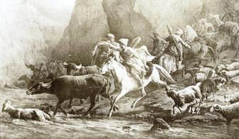 Miscellaneous. Returen of Lezghians from a raid.